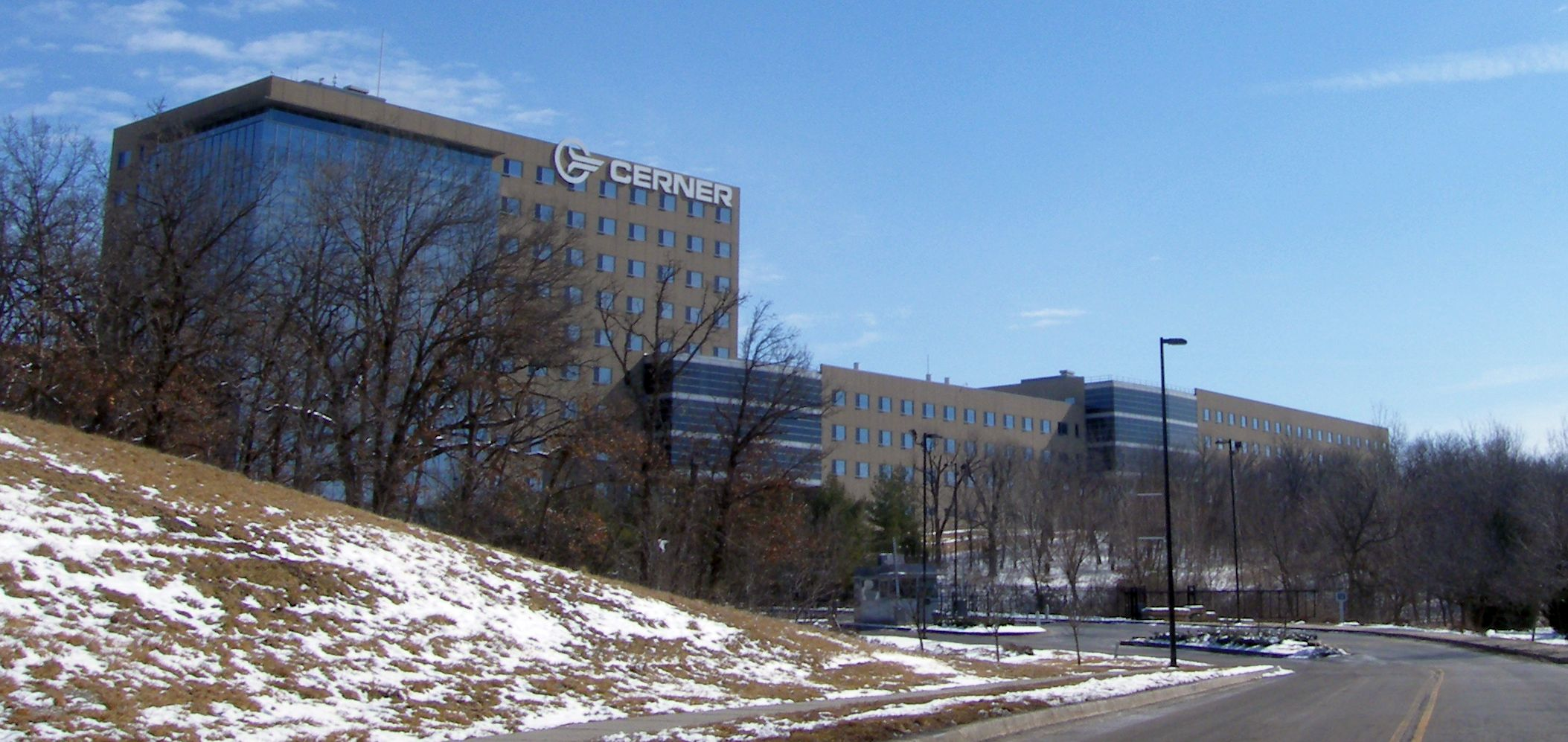 The former Marion Labs in Kansas City in February 2009